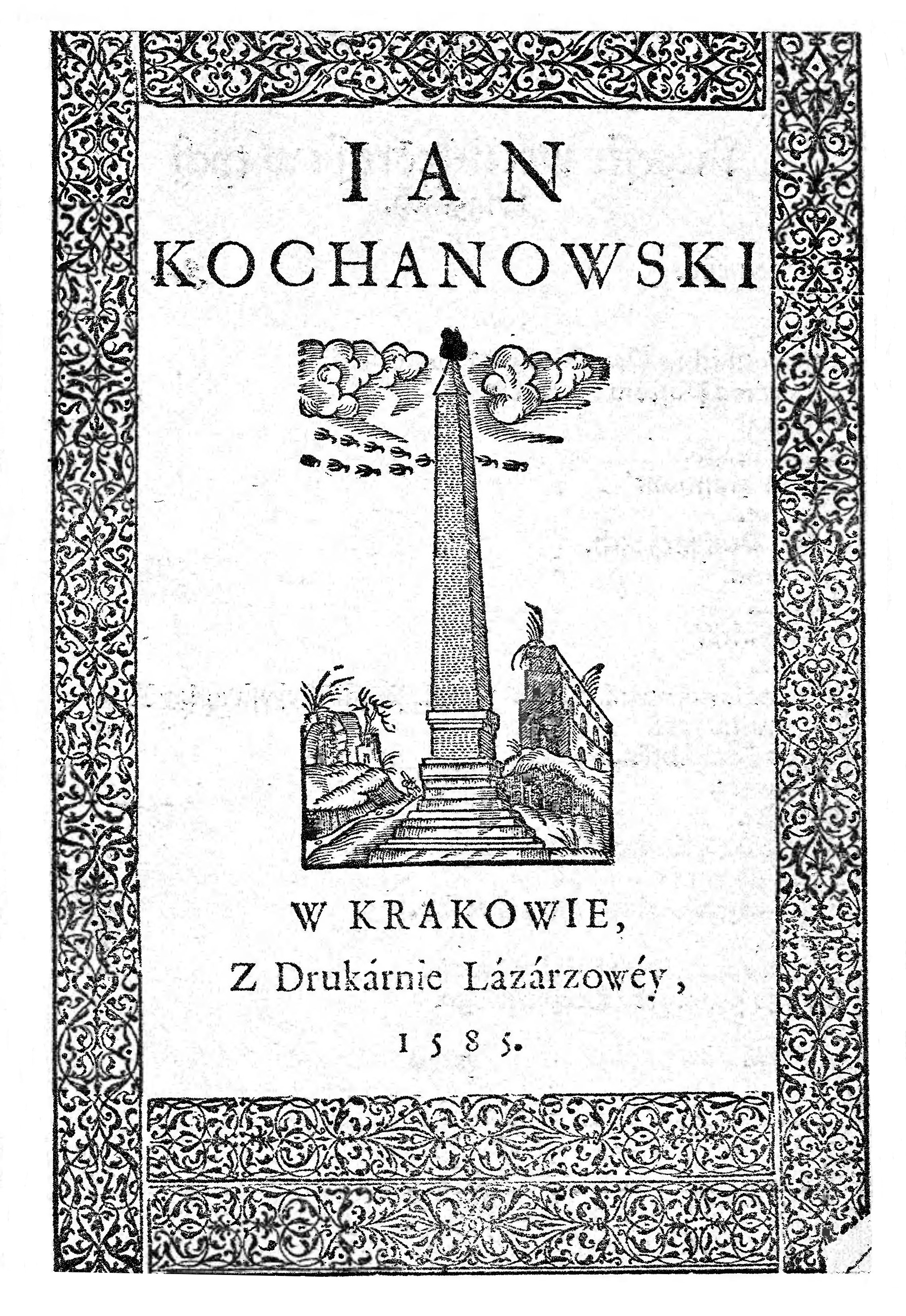 Title page of collected works by Jan Kochanowski, 1585.